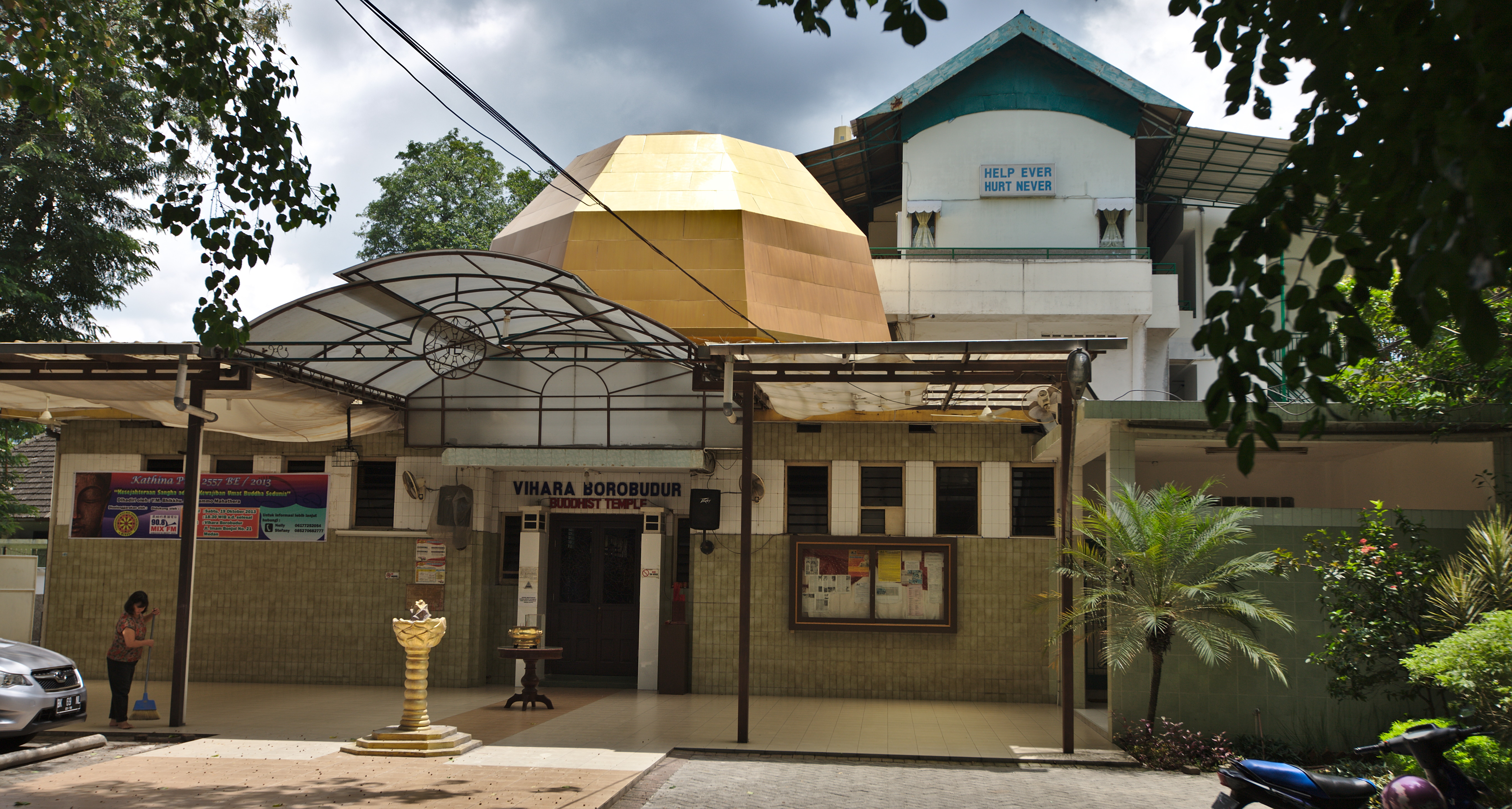 Exterior view of Vihara Borobudur, Medan, a Buddhist temple. The front terrace, entrace and overall structure are visible as well as part of the surrounding foliage.